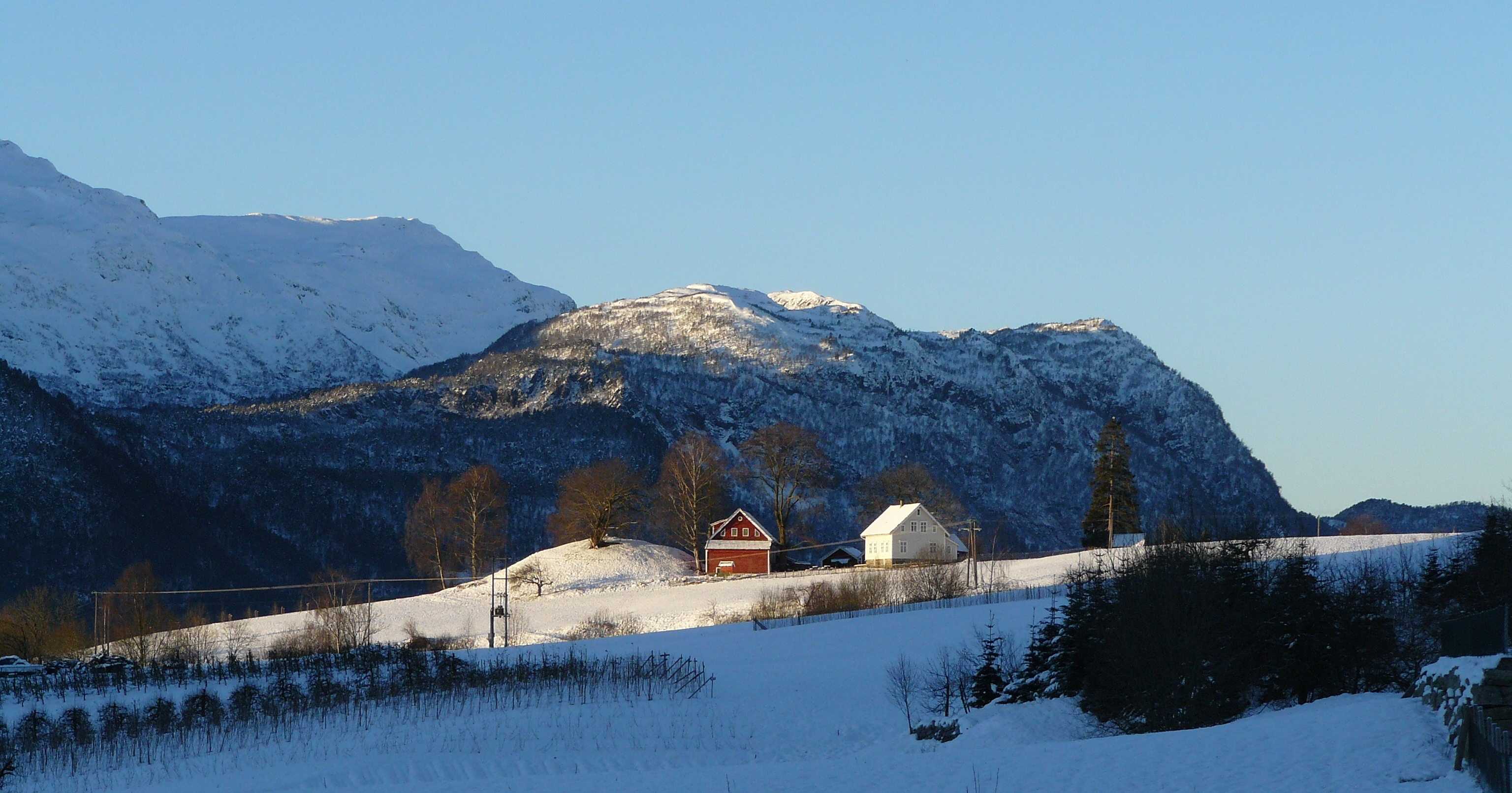 Hauge i Gloppen, seen from Sandane